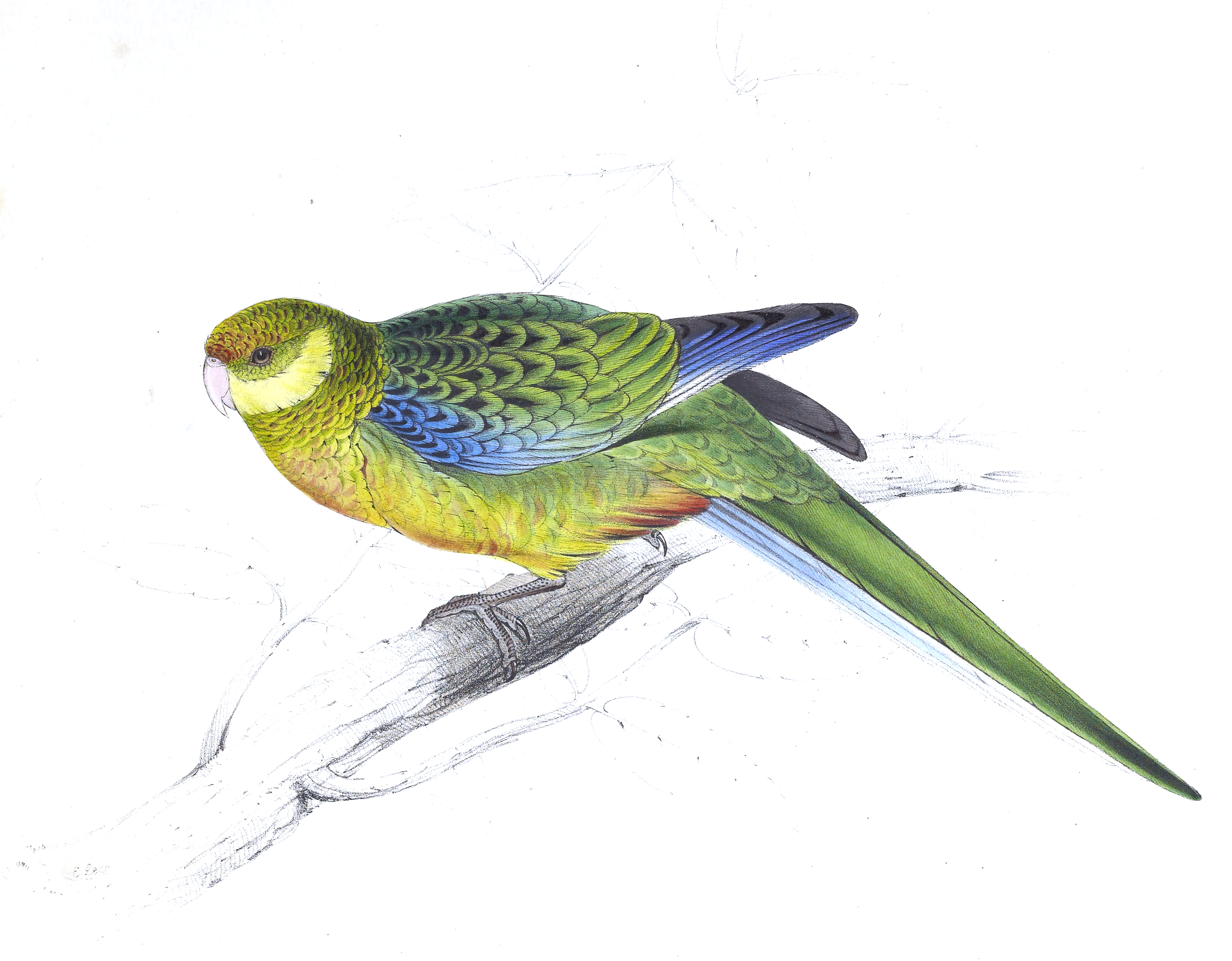 Crude image test for reuse at wikisource, crop, white point at levels, convert jp2 to jpg